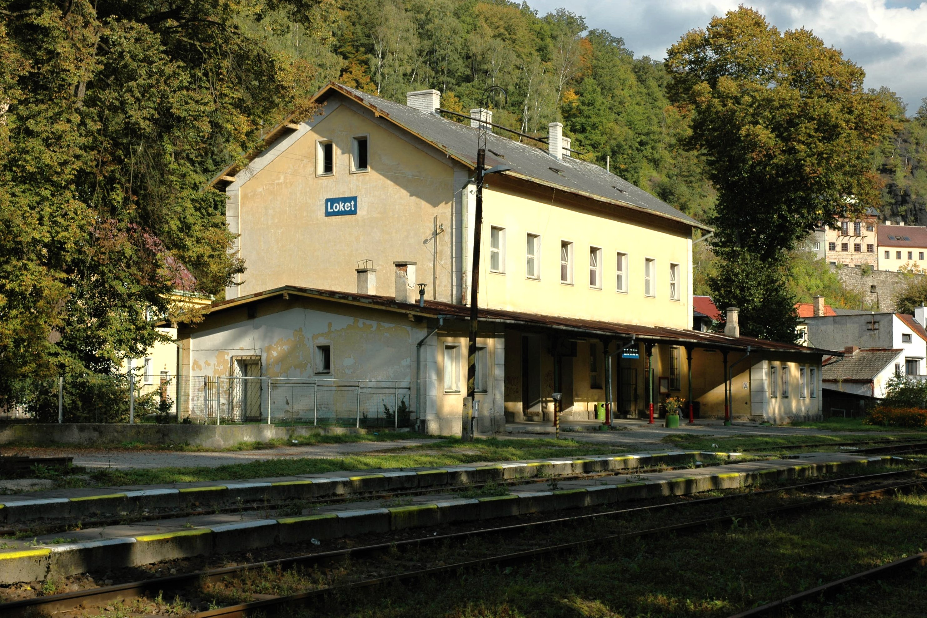 Loket railway station, the Czech Republic